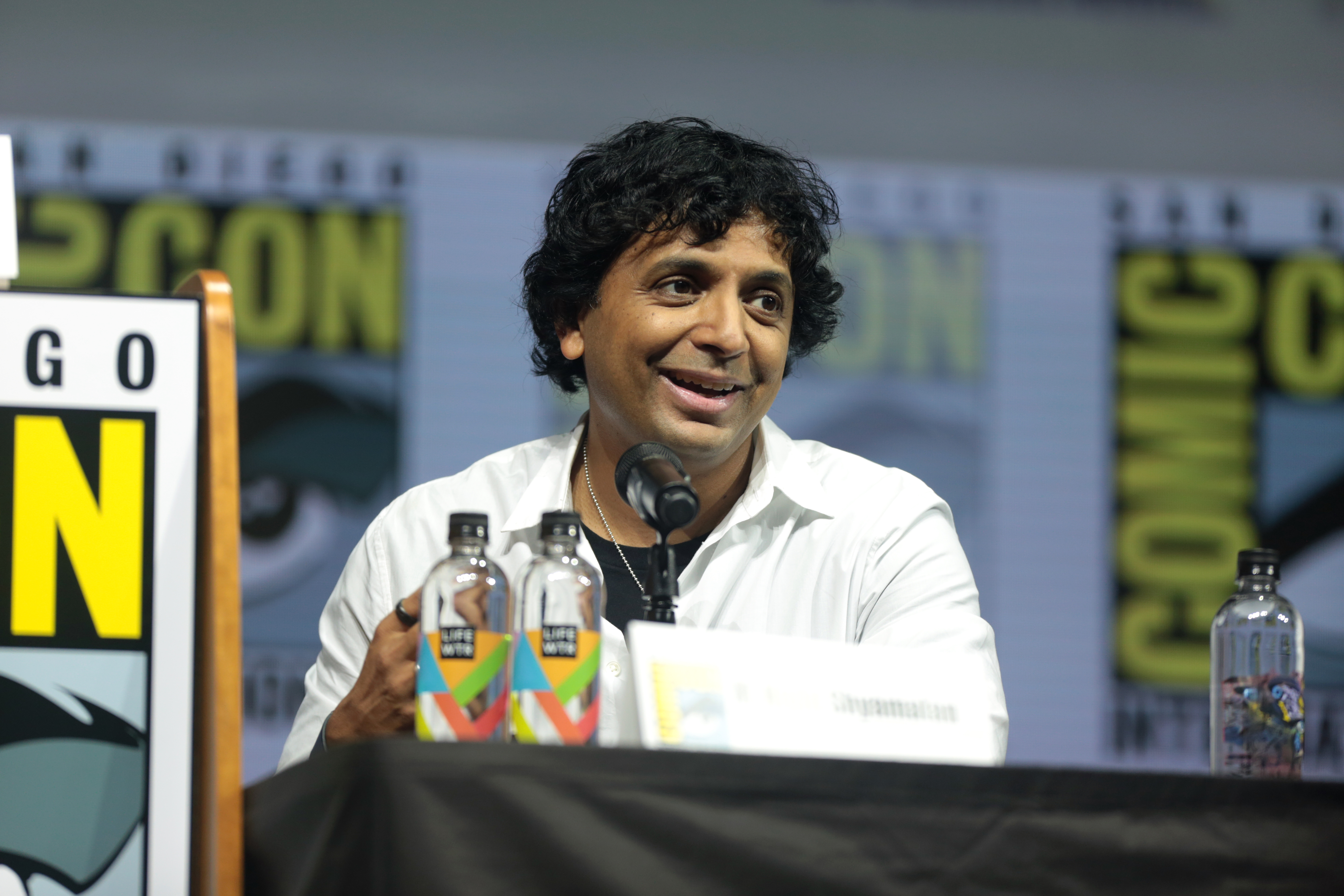 M. Night Shyamalan speaking at the 2018 San Diego Comic Con International, for "Glass", at the San Diego Convention Center in San Diego, California.